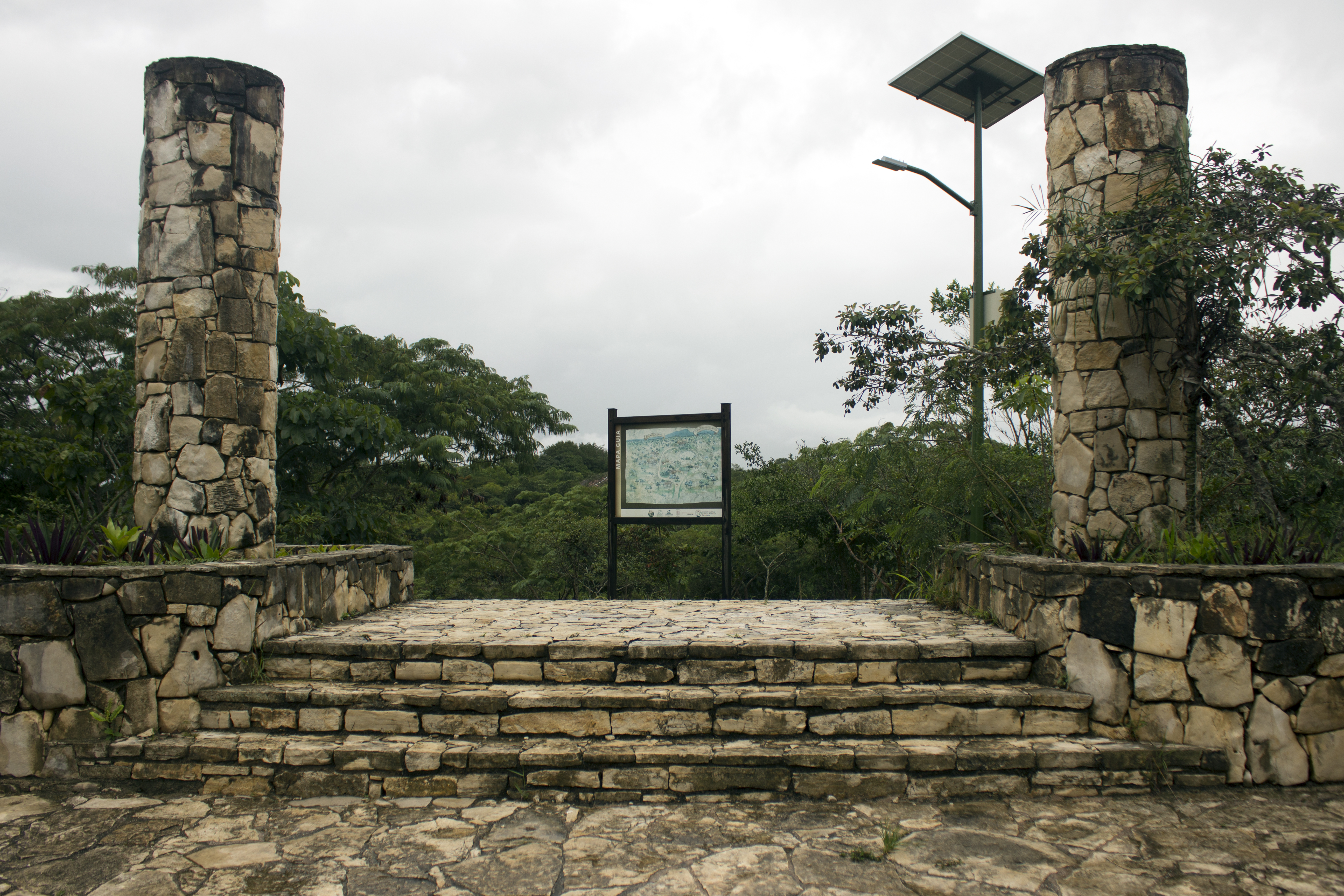 Entrance to the viewpoint of the Sima de las Cotorras in the Ecotourism Center with map.